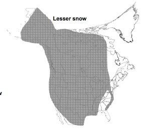 Range Map of Lesser Snow Goose